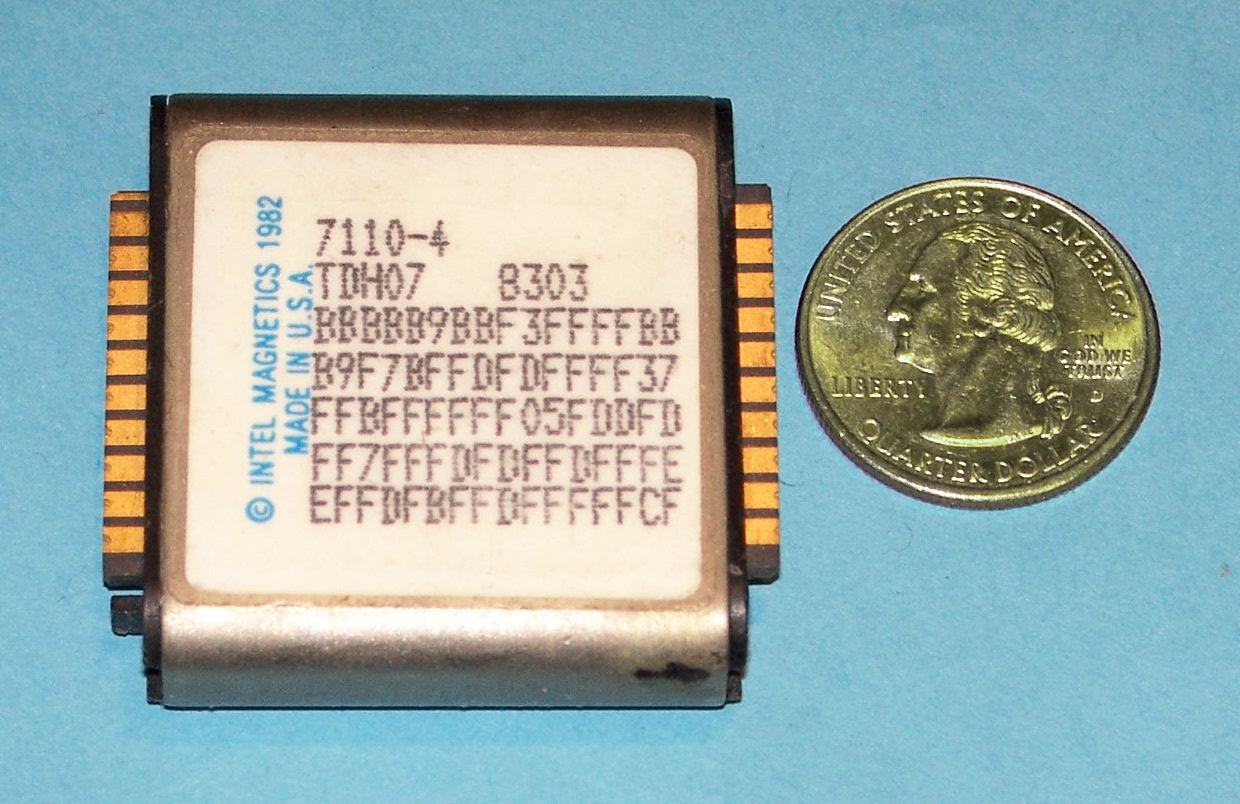 Photograph of an Intel Magnetics magnetic bubble memory module (c. 1982) with a US quarter dollar coin for size comparison.